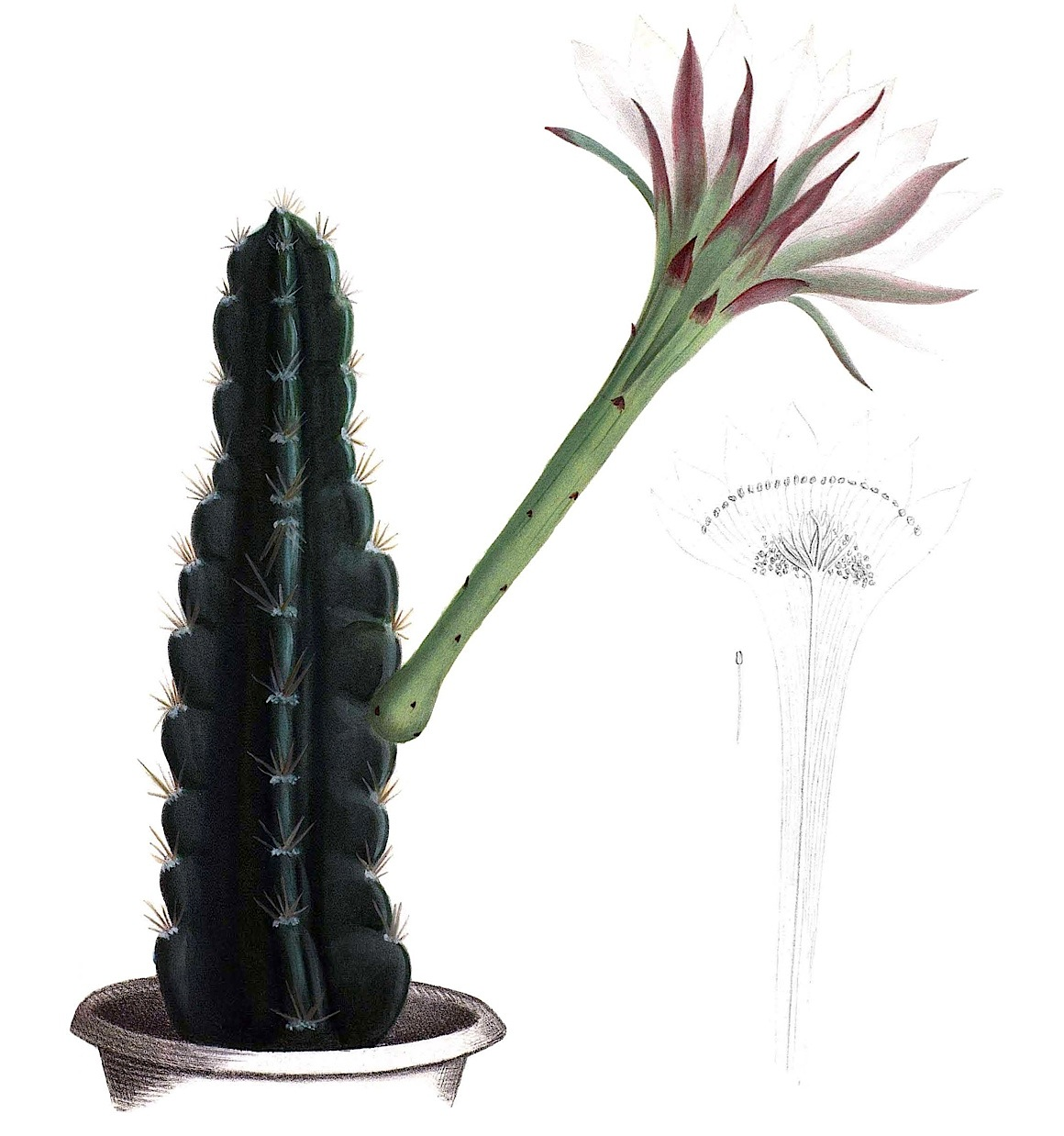 Acanthocereus tetragonus